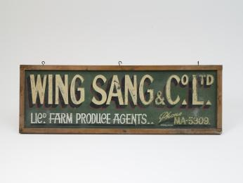 A 1935 advertisement sign for Wing San and Co.